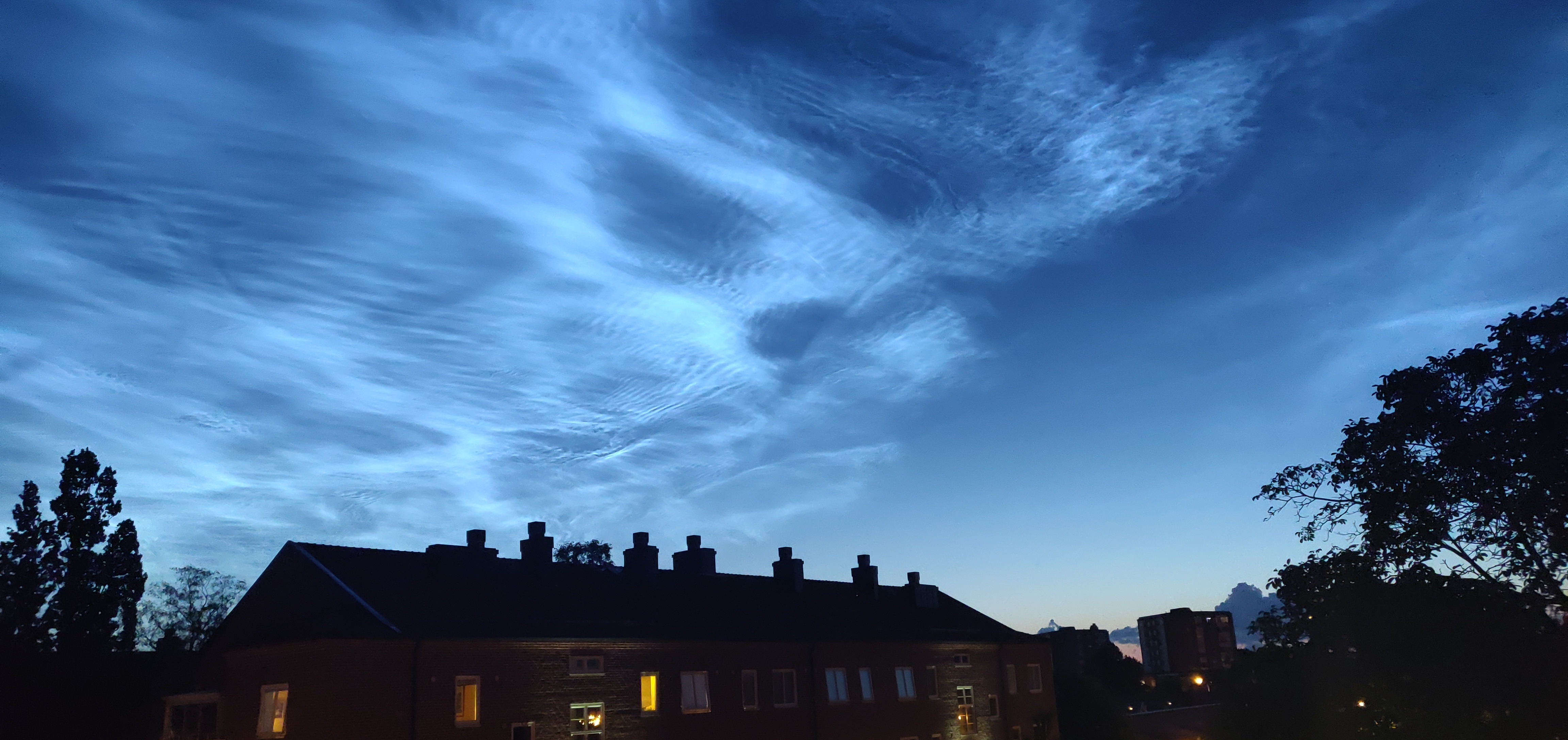 Noctilucent clouds over Landskrona, Sweden